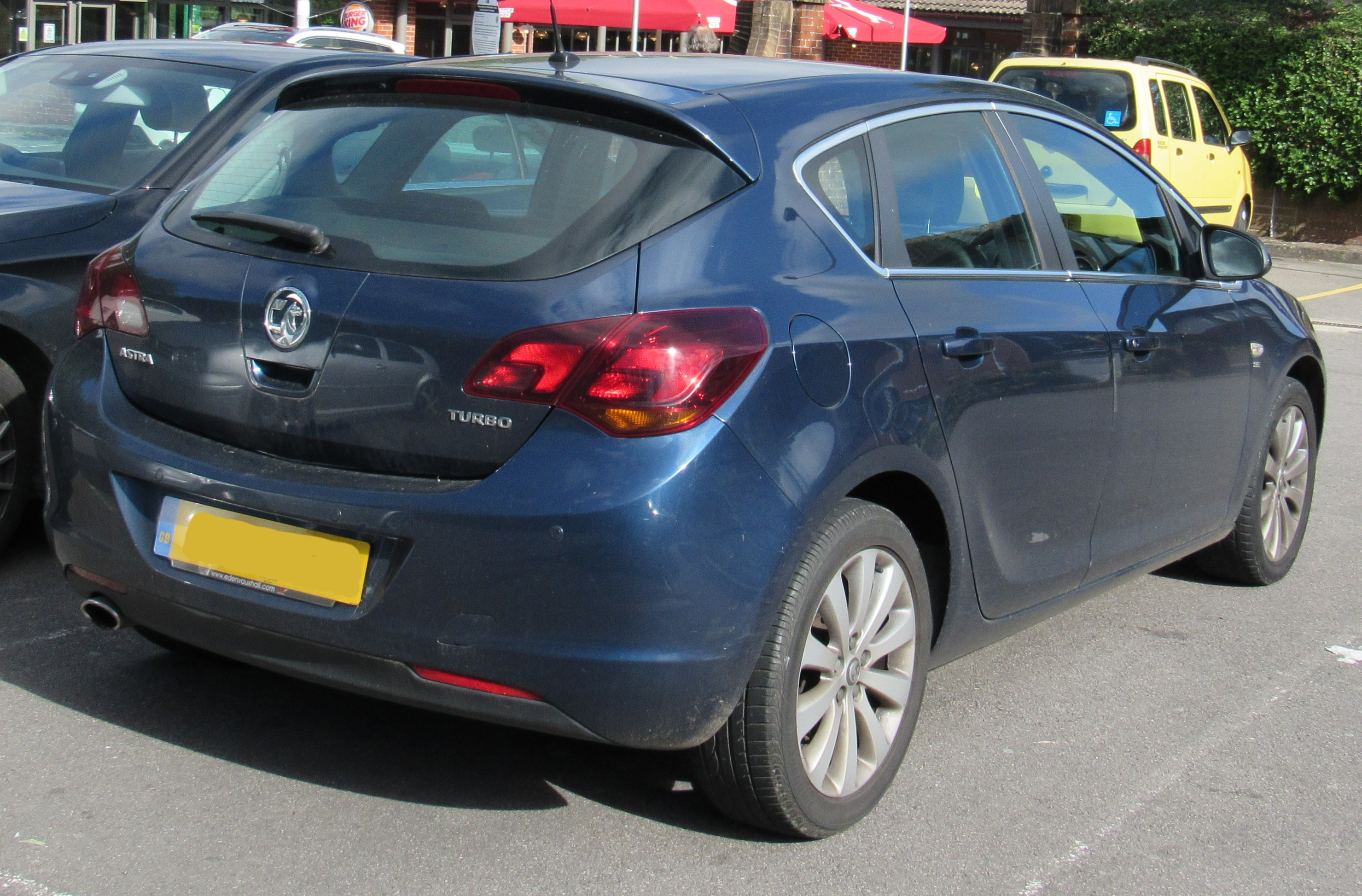 2012 Vauxhall Astra SE Turbo 1.4 Rear Taken in A417, near Cirencester